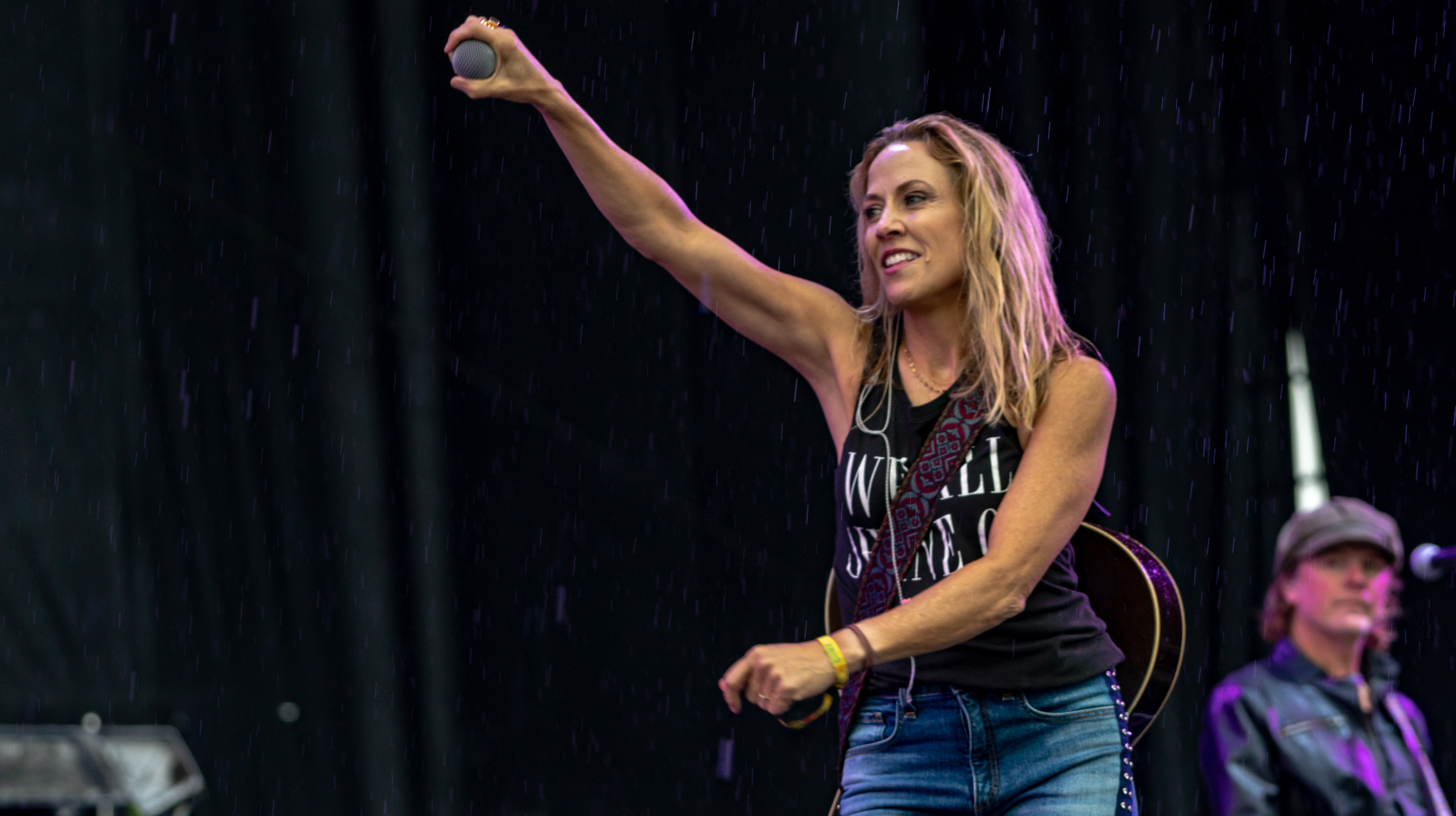 SherlCrowBourbon220918-26